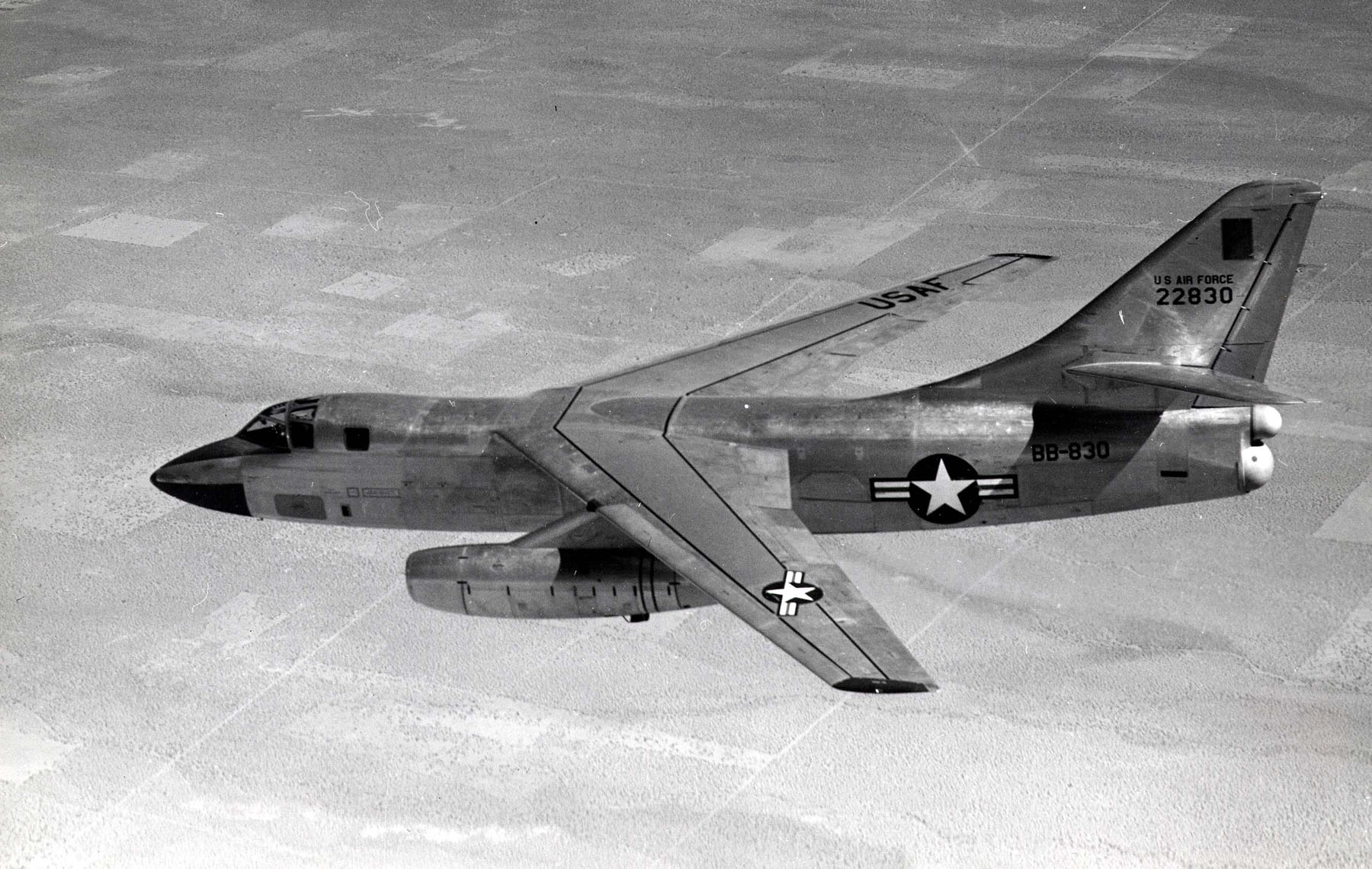 Douglas RB-66A Destroyer in flight (SN 52-2830)